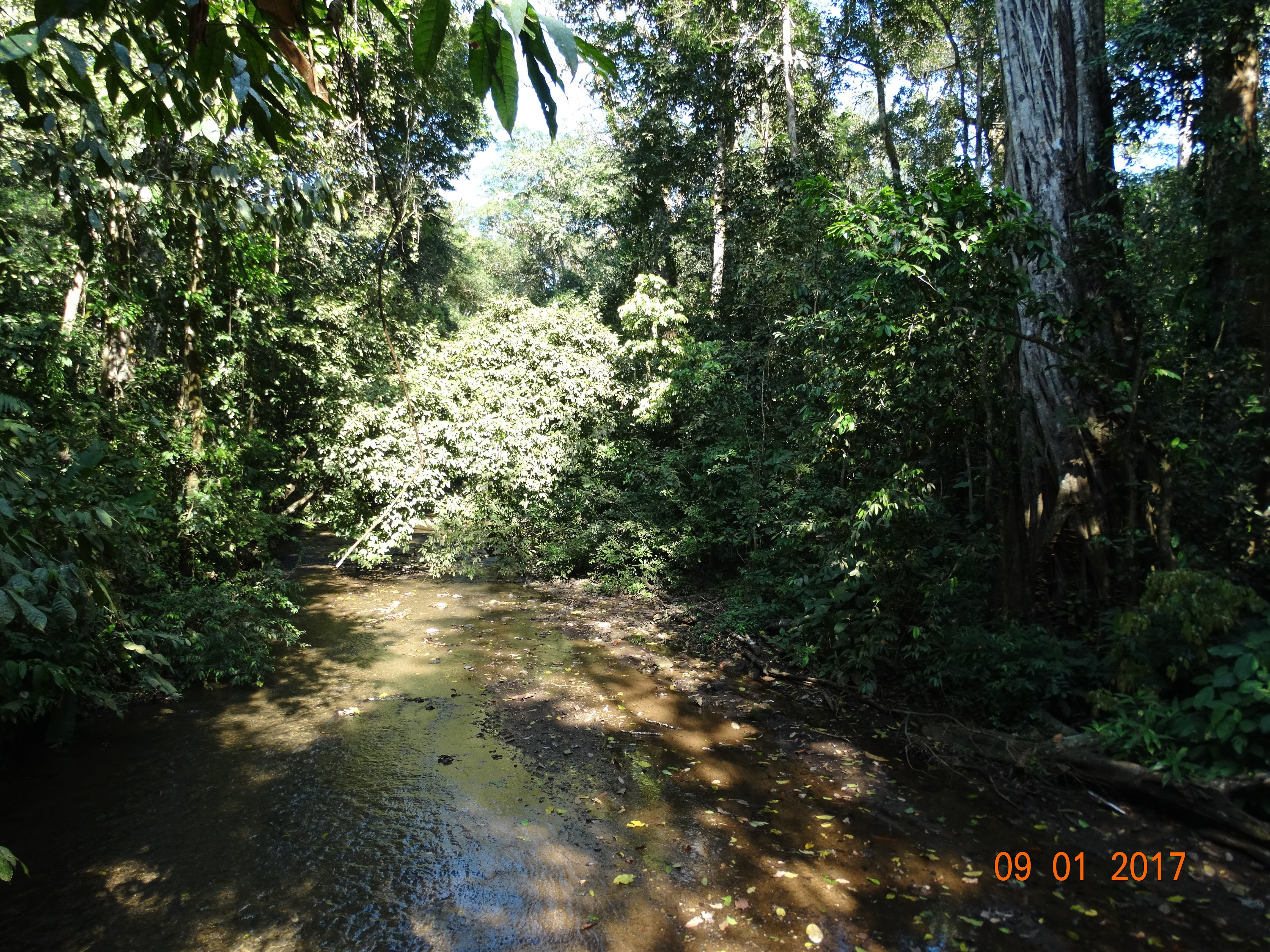 River in Carara National Park